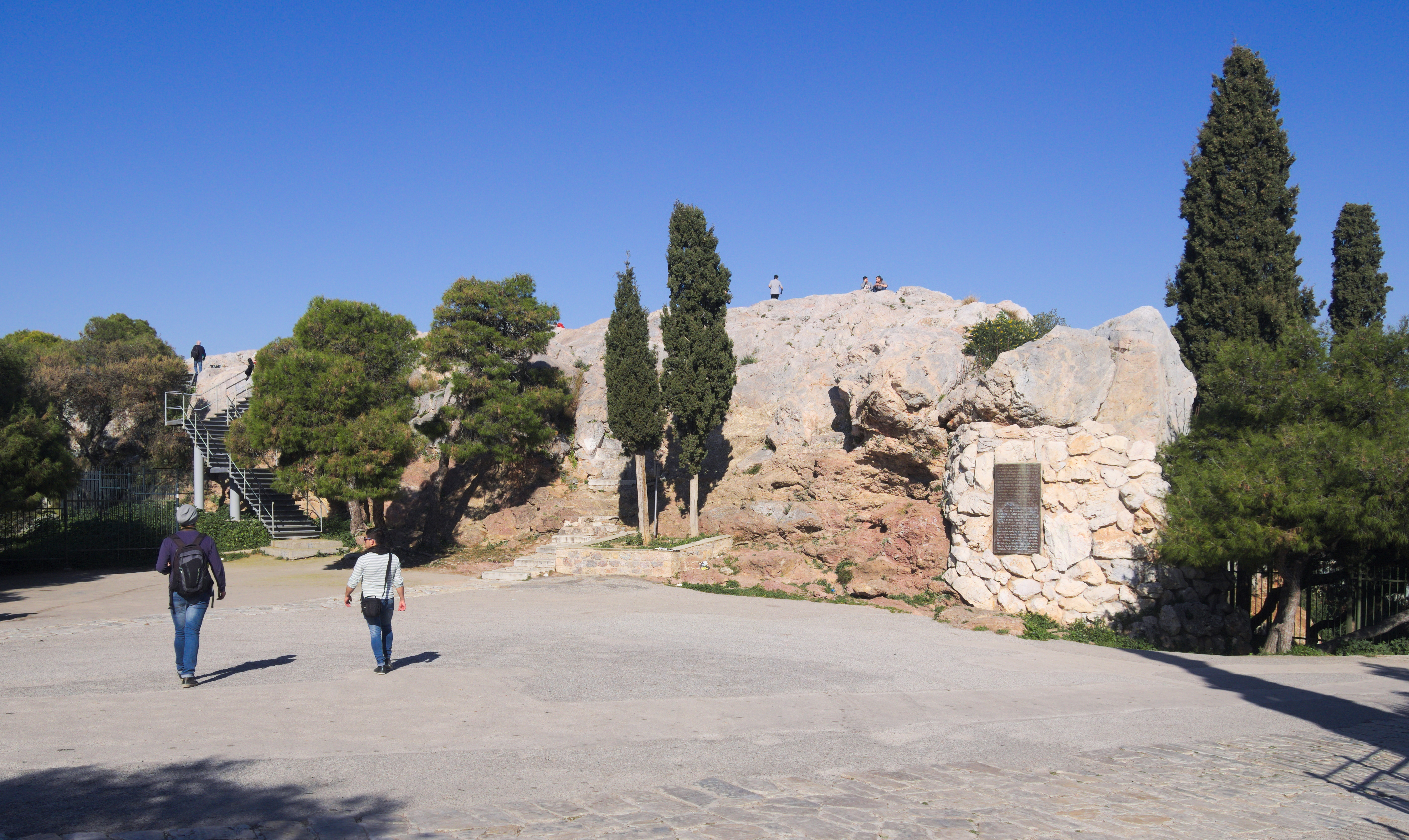 The hill of Areopagus, as seen from south.